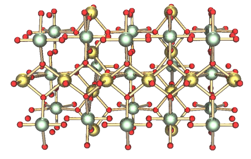 Uranium trioxide (UO3) gamma lattice